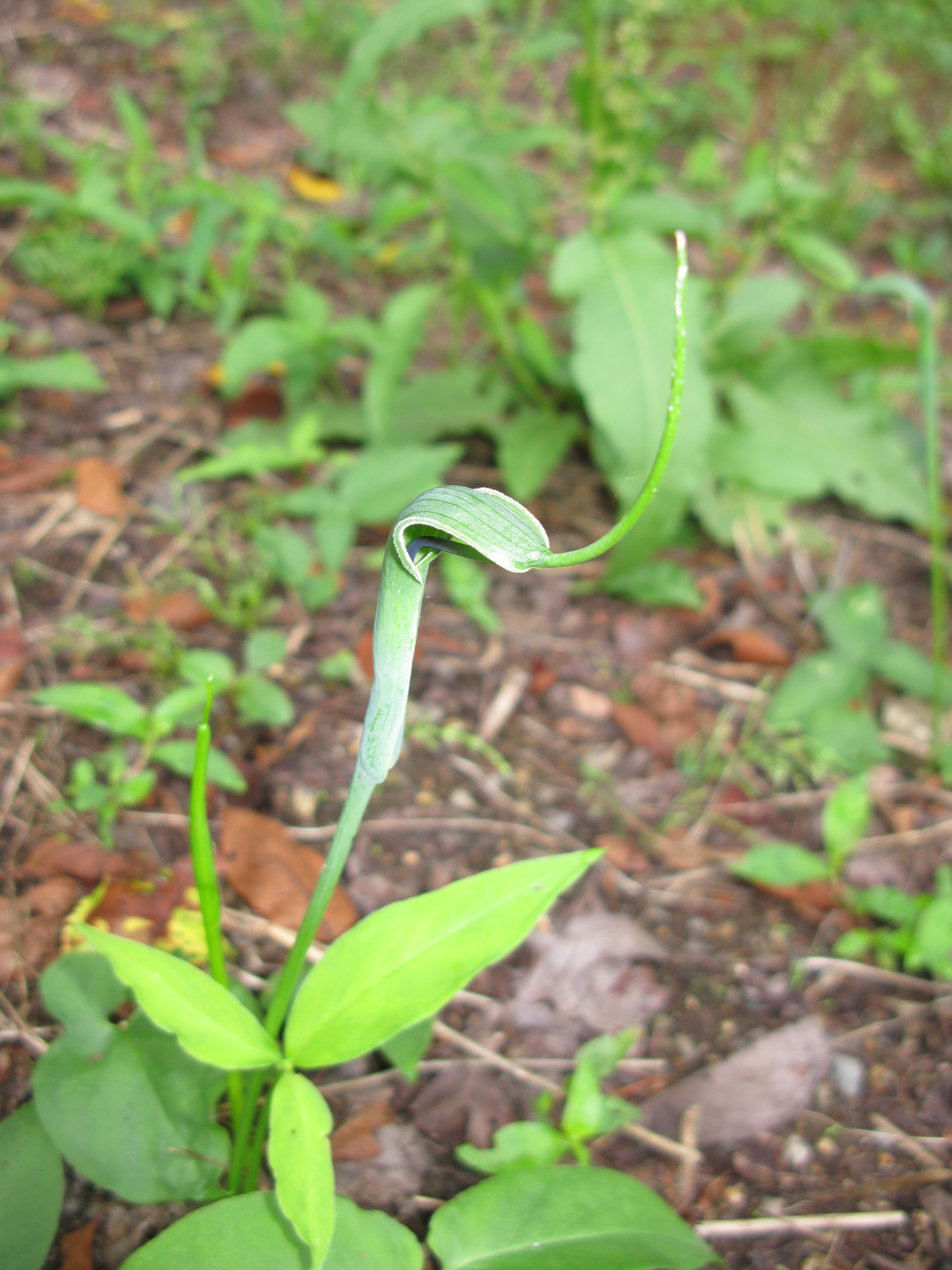 Pinellia ternata, Nagano pref., Japan